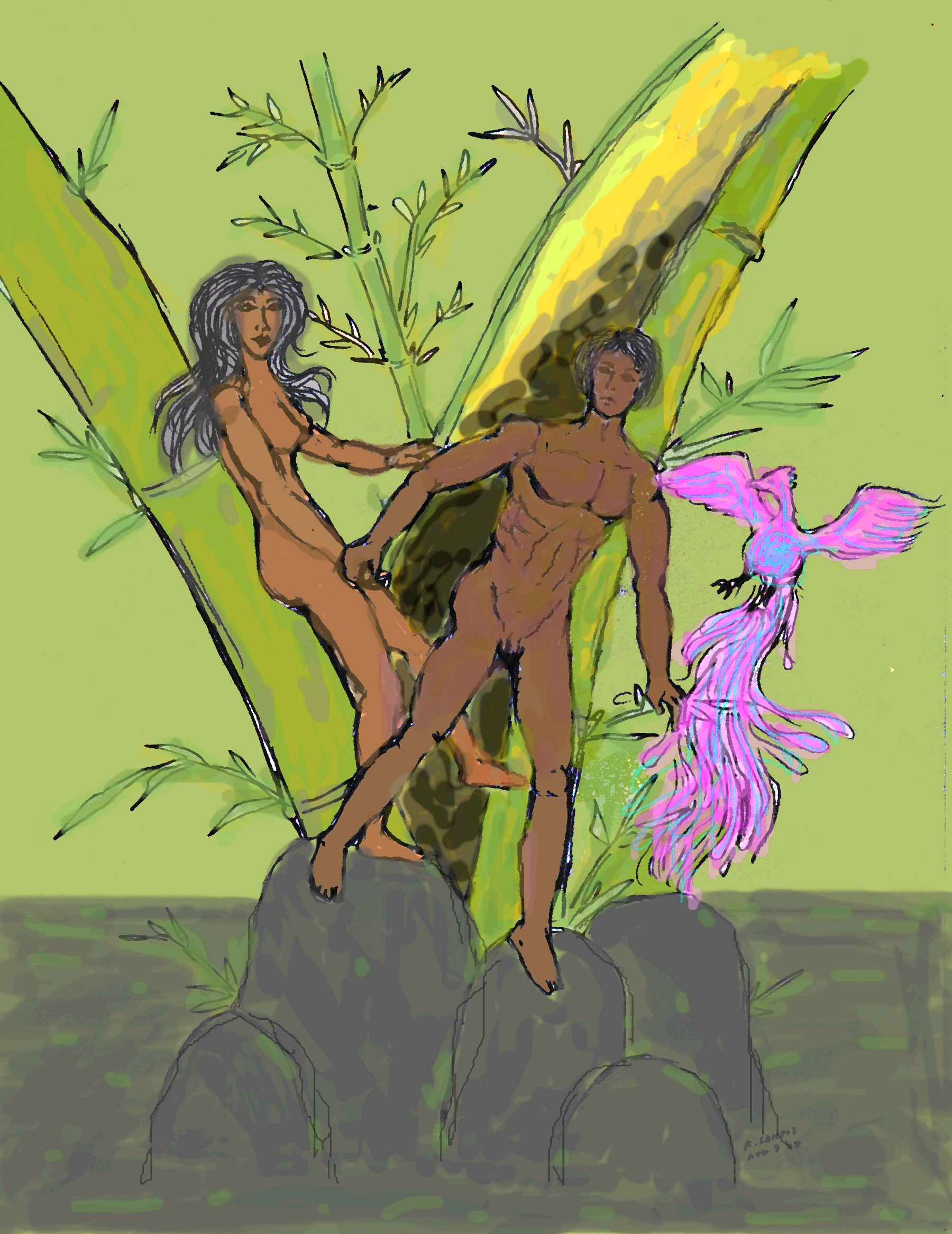 Illustration of Malakas and Maganda (Strong One and Beautiful One), depicted here descending from their bamboo of origin. Being the first man and woman of Philippine folklore, Malakas and Maganda emerged from the gigantic bamboo that was pecked by the legendary sarimanok bird. This illustration was created using an HB pencil. For this illustration the artist employed sketching and line-drawing. This drawing was electronically enhanced. Color was applied via a computer as well.